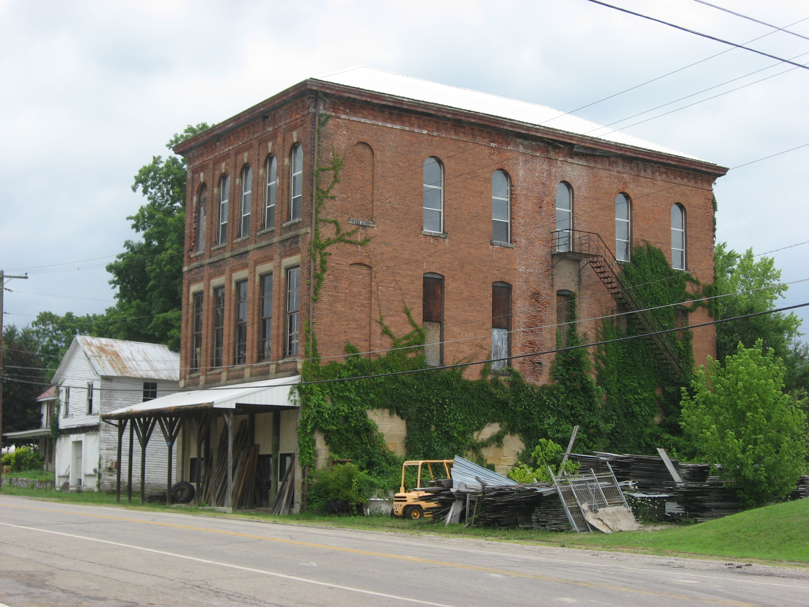 Front and eastern side of the Masonic Lodge No. 472, located at 117 E. Main Street (State Route 278) in central Zaleski, Ohio, United States. Built in 1884, it is listed on the National Register of Historic Places.